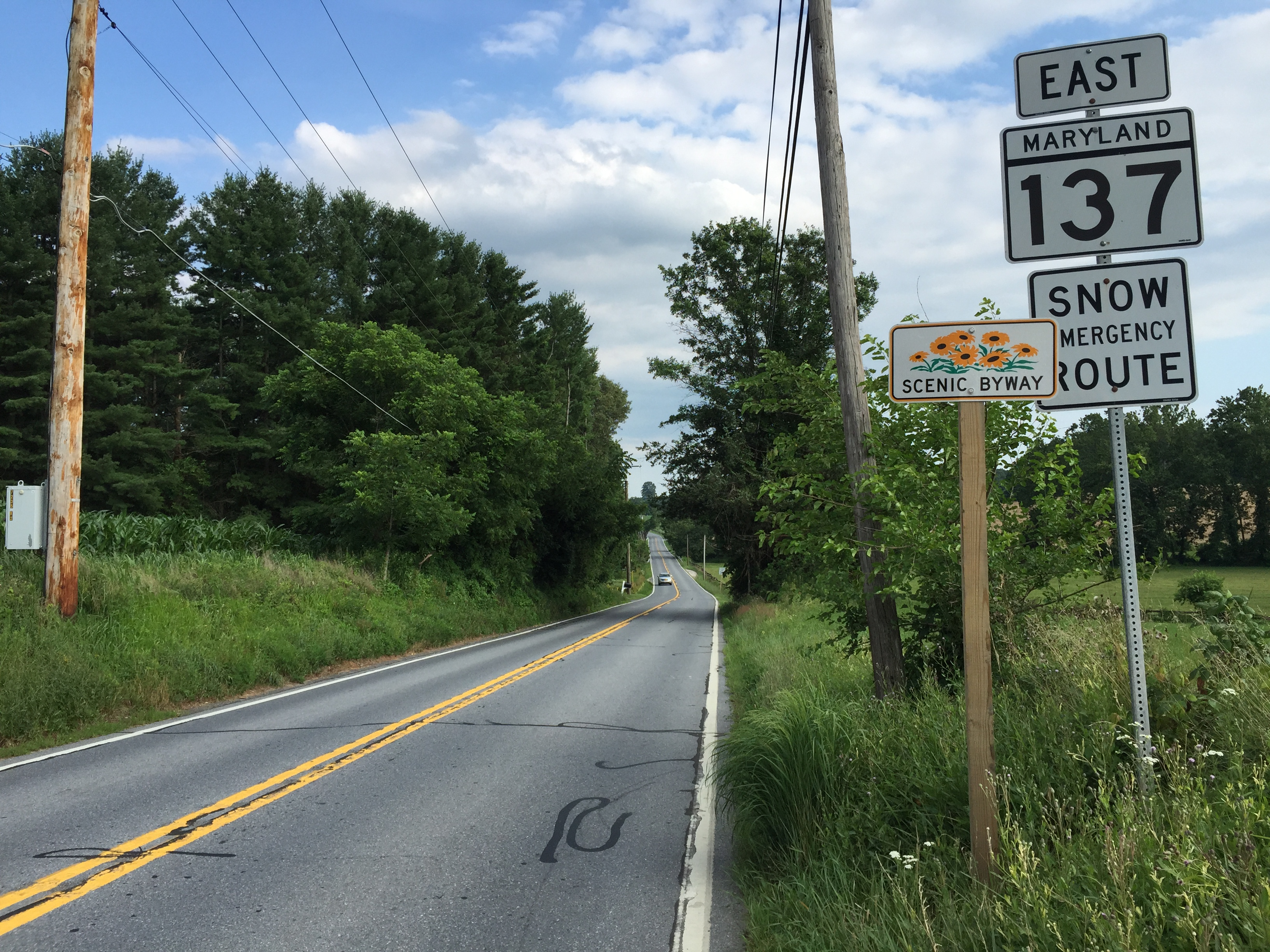 View east along Maryland State Route 137 (Mount Carmel Road) just east of Gunpowder Road in Armacost, Baltimore County, Maryland